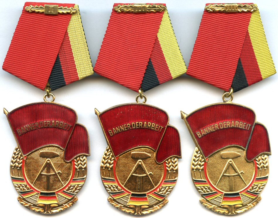 GDR Banner of Labour 3 classes